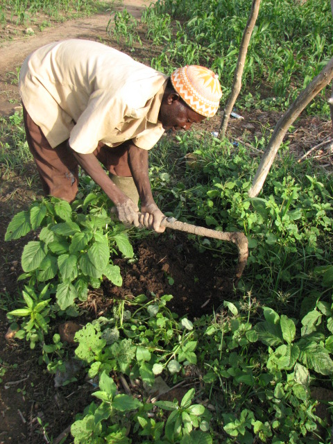 After the dry excreta are separated from the garbage and are mixed with other organic fertilizer (donkey muck, cow muck etc.) and pure fertile soil, the gardeners of Fada N'Gourma let them often to mature another 2 to 4 month.